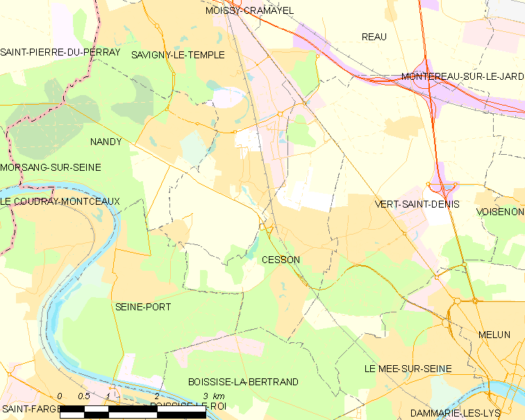 Map of French municipality Cesson